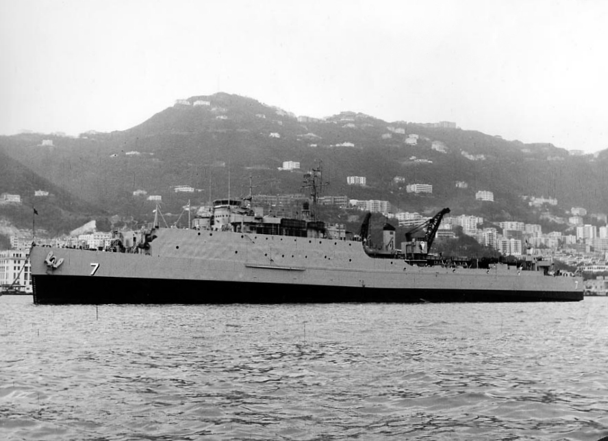 The U.S. Navy dock landing ship USS Oak Hill (LSD-7) moored to a buoy during the 1960s.